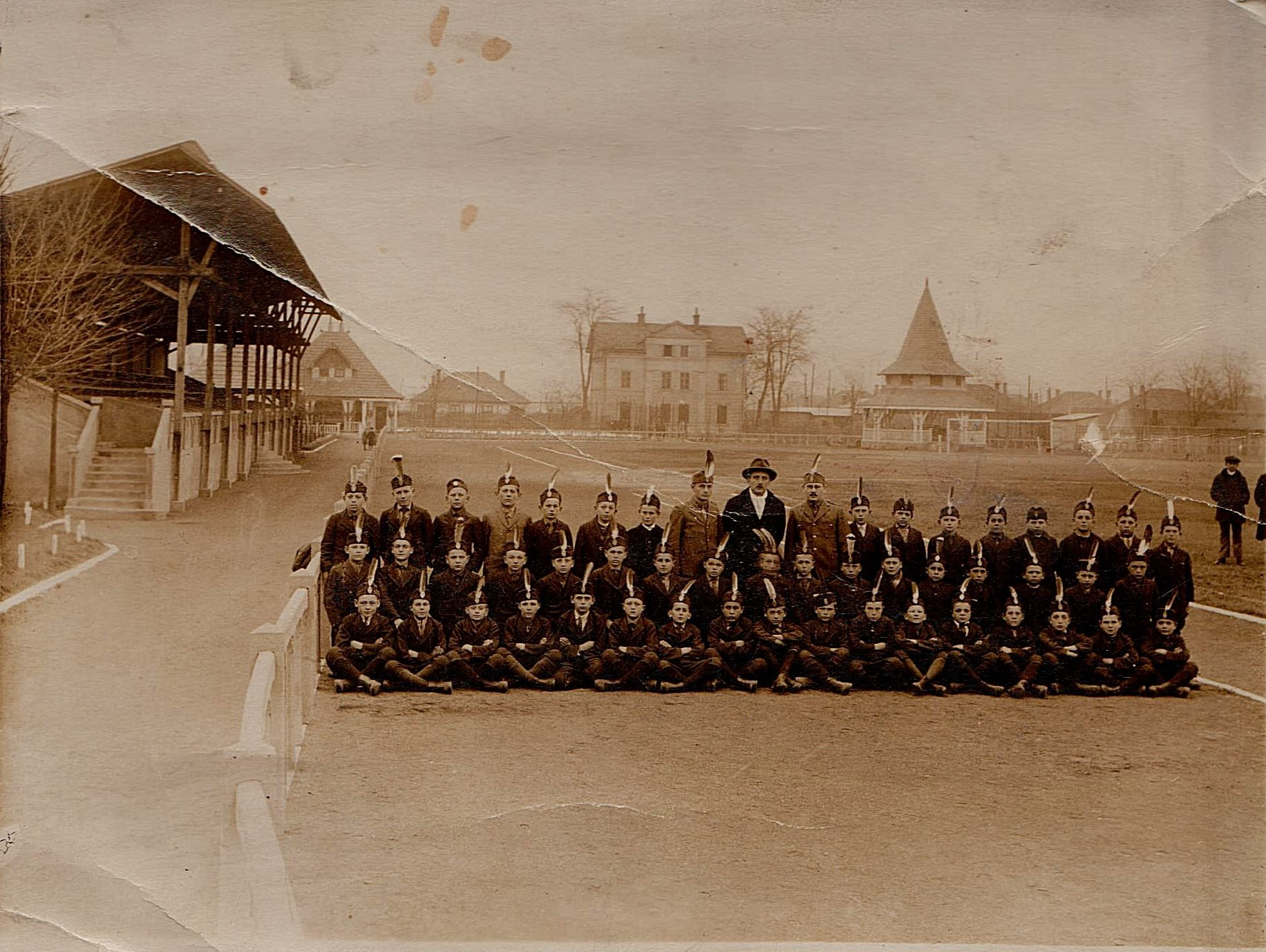 The stadium was a really popular and lovely public place for everyone and for any activity. Here are the great youth community groups members the "Levente"-s